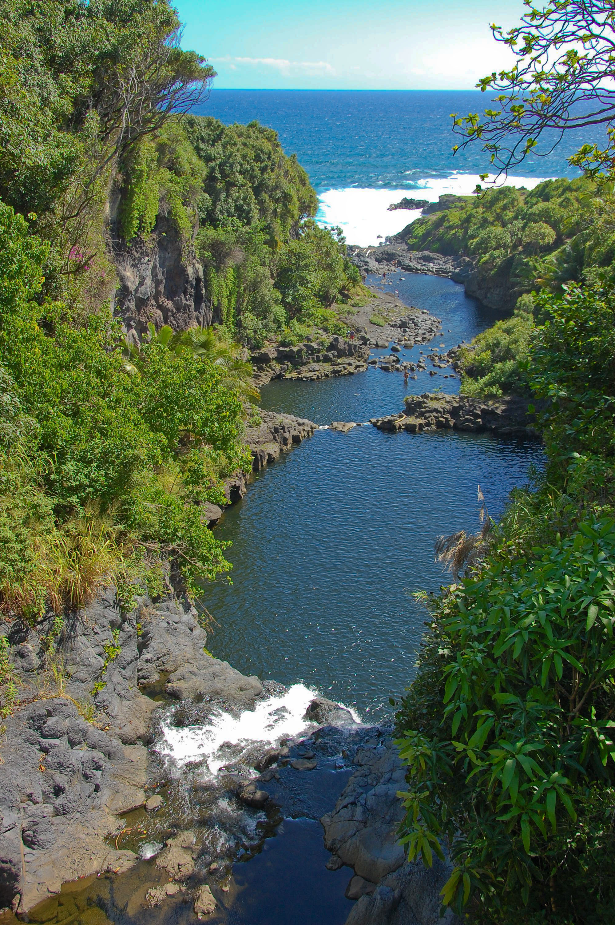 Kipahulu: The Seven Pools of O'heo